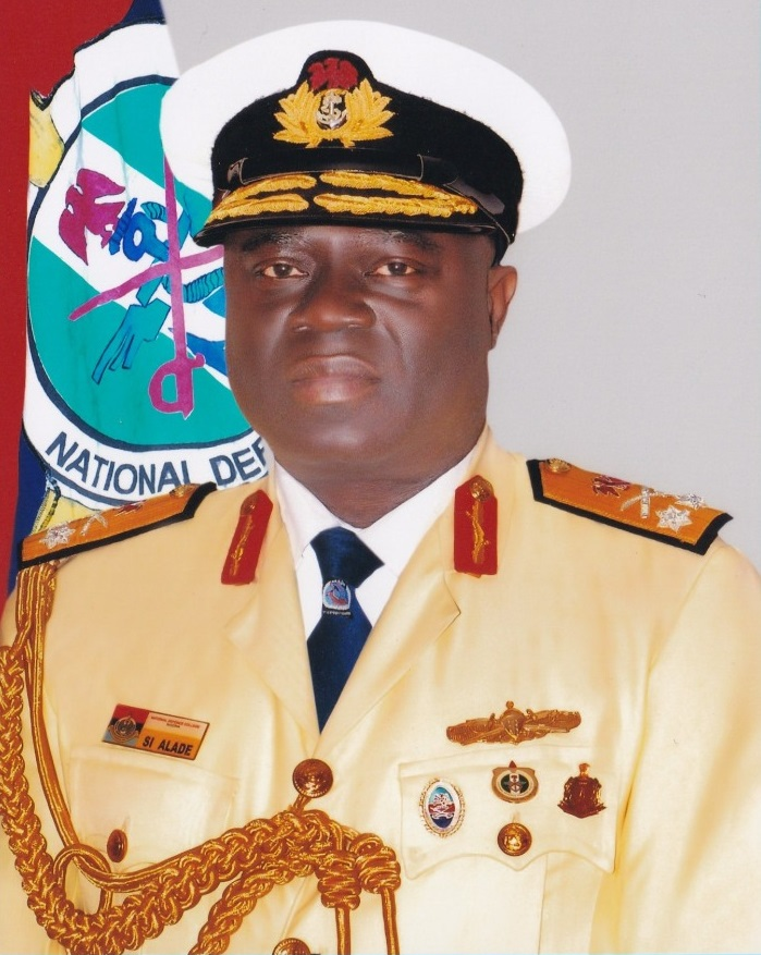 Rear Admiral Samuel Ilesanmi Alade